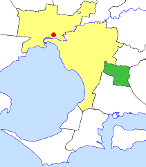 Location of the City of Berwick within outer Melbourne.